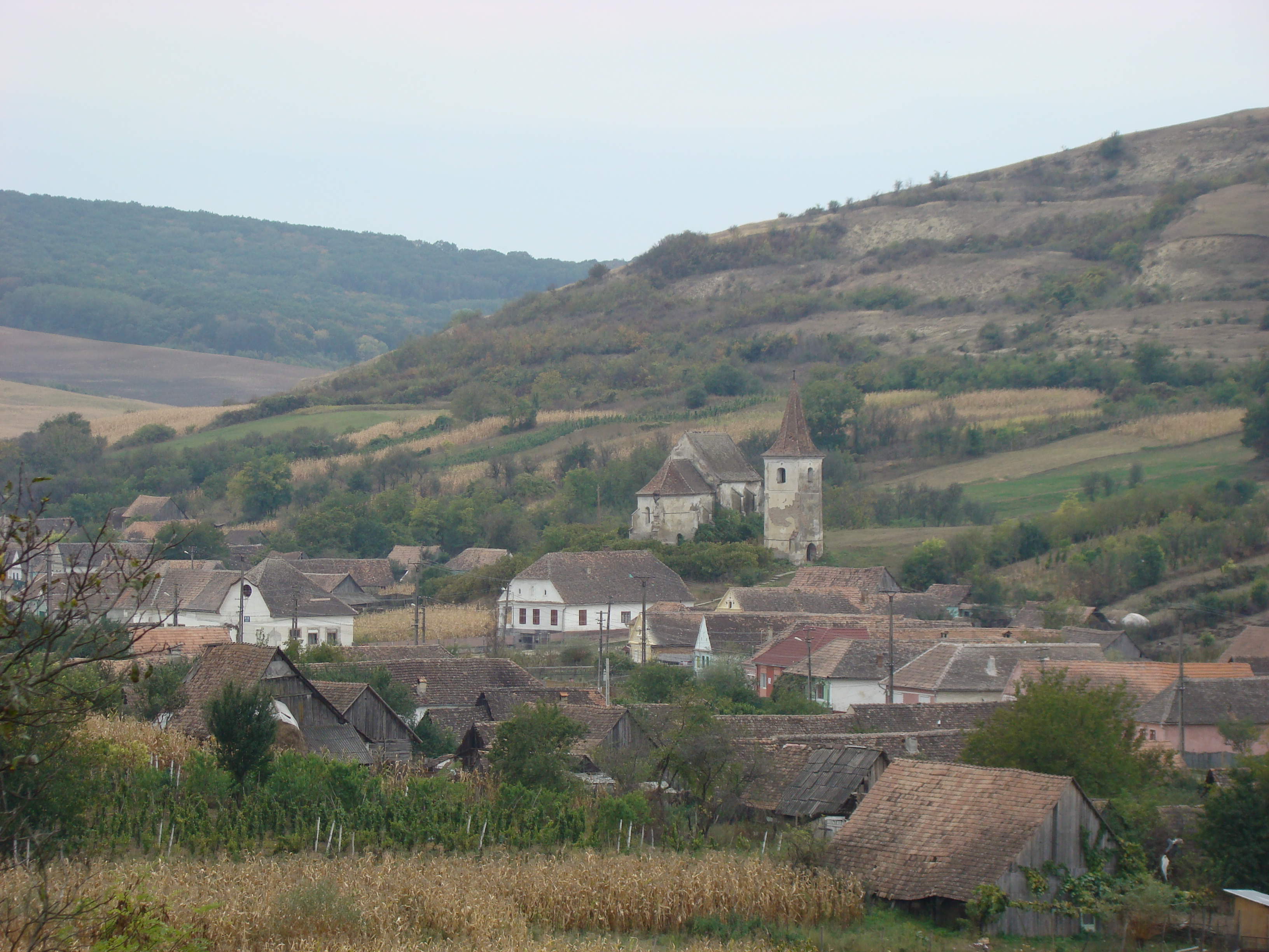 Veseuș, Alba county, Romania